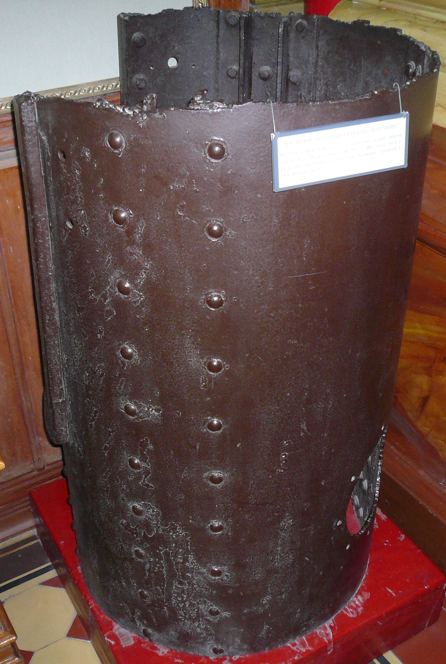 Part of fore-mast of Russian battleship Potemkin